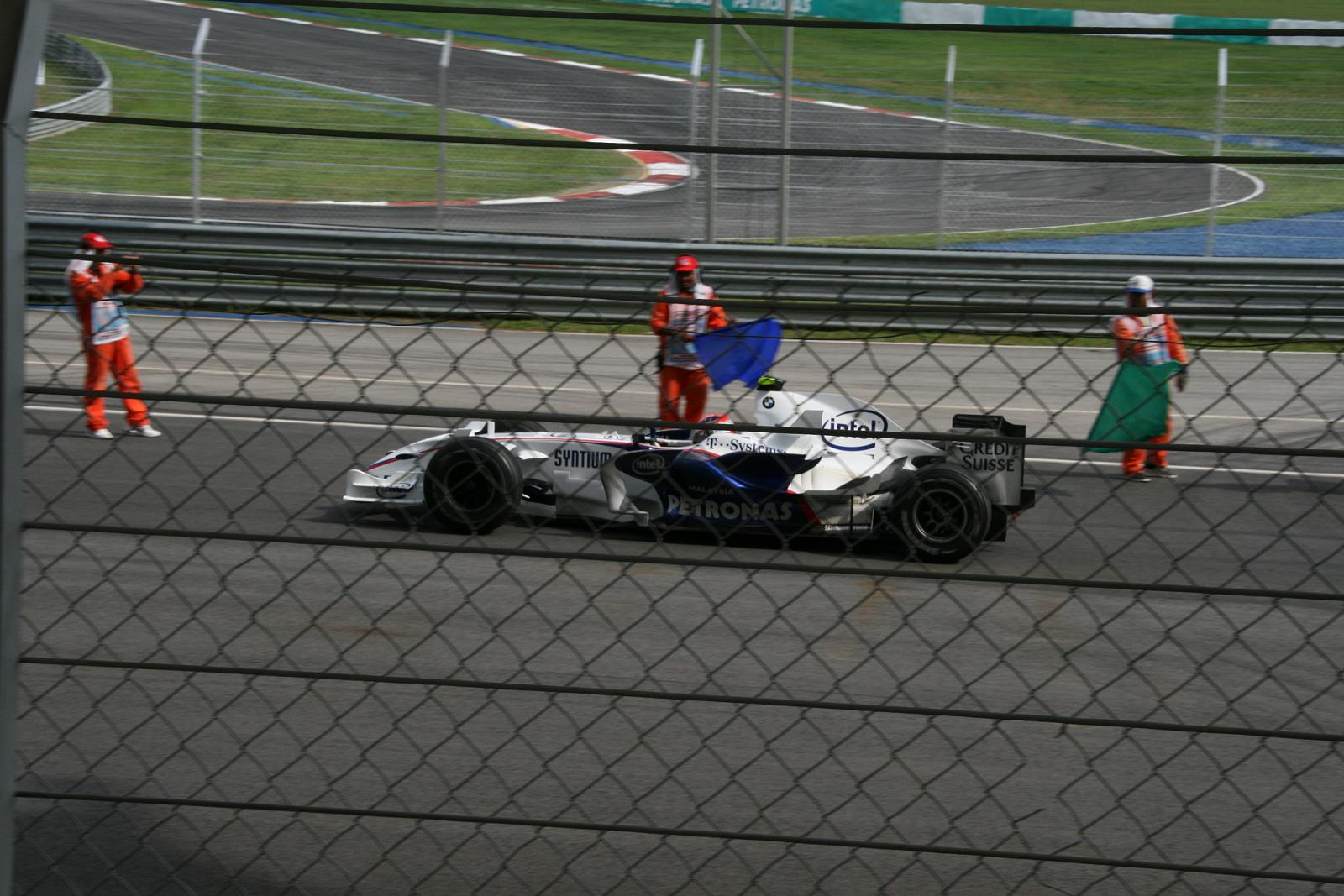 Robert Kubica at the 2008 Malaysian Grand Prix